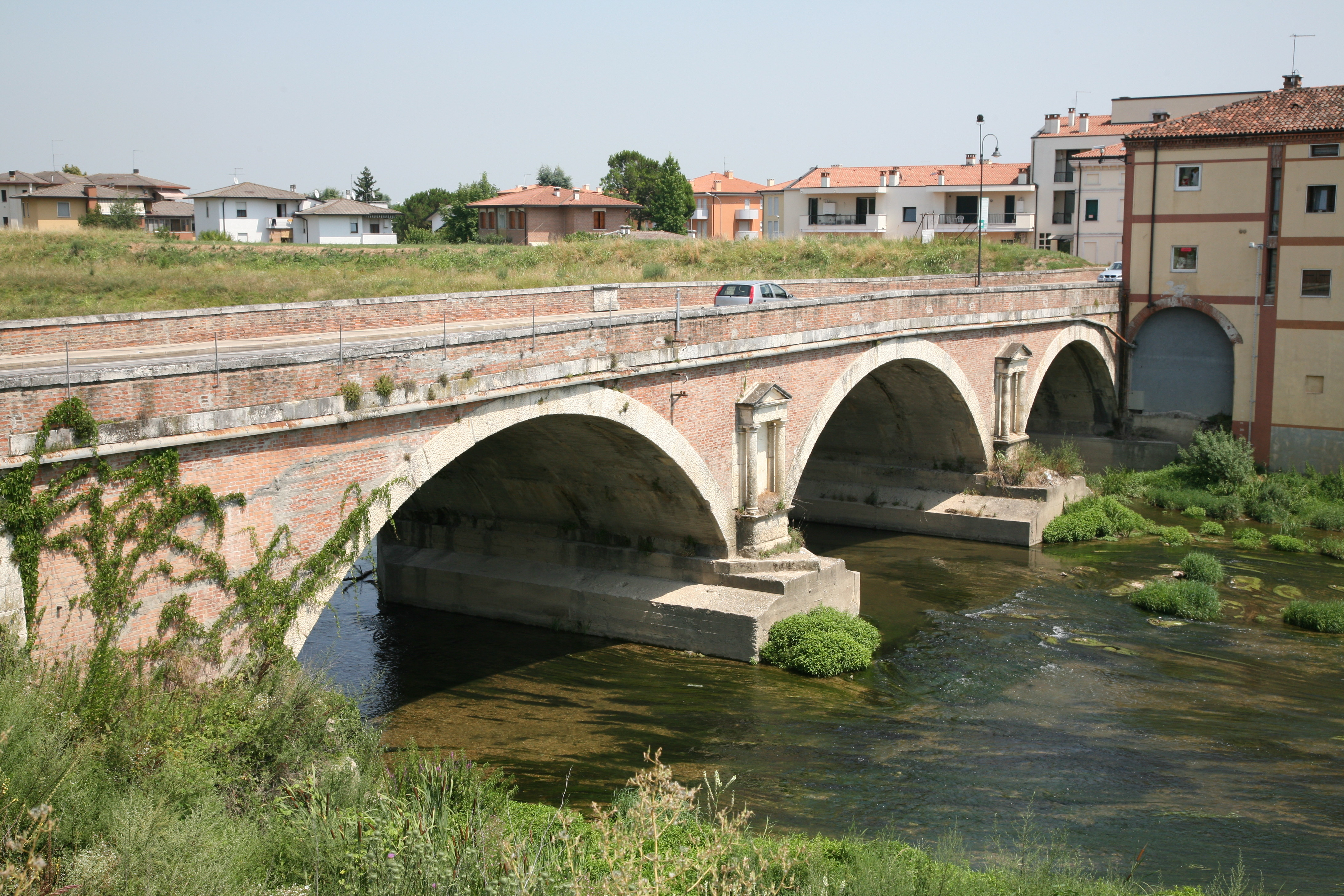 Bridge over Tesina at Torri di Quartesolo. Attributed to Andrea Palladio